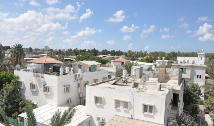 Dahamash Village